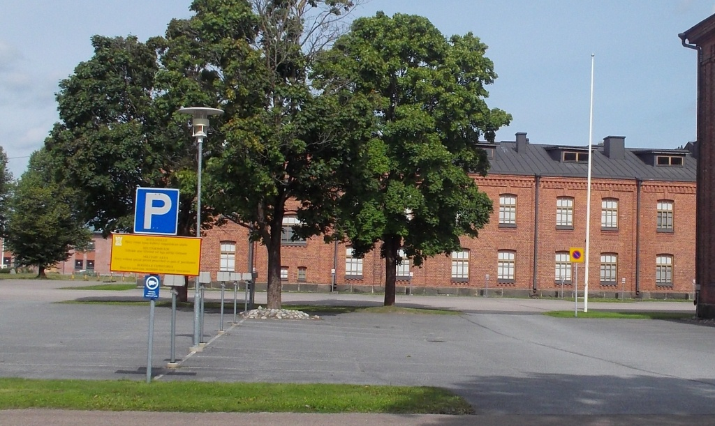 Lappeenranta garrison baracs